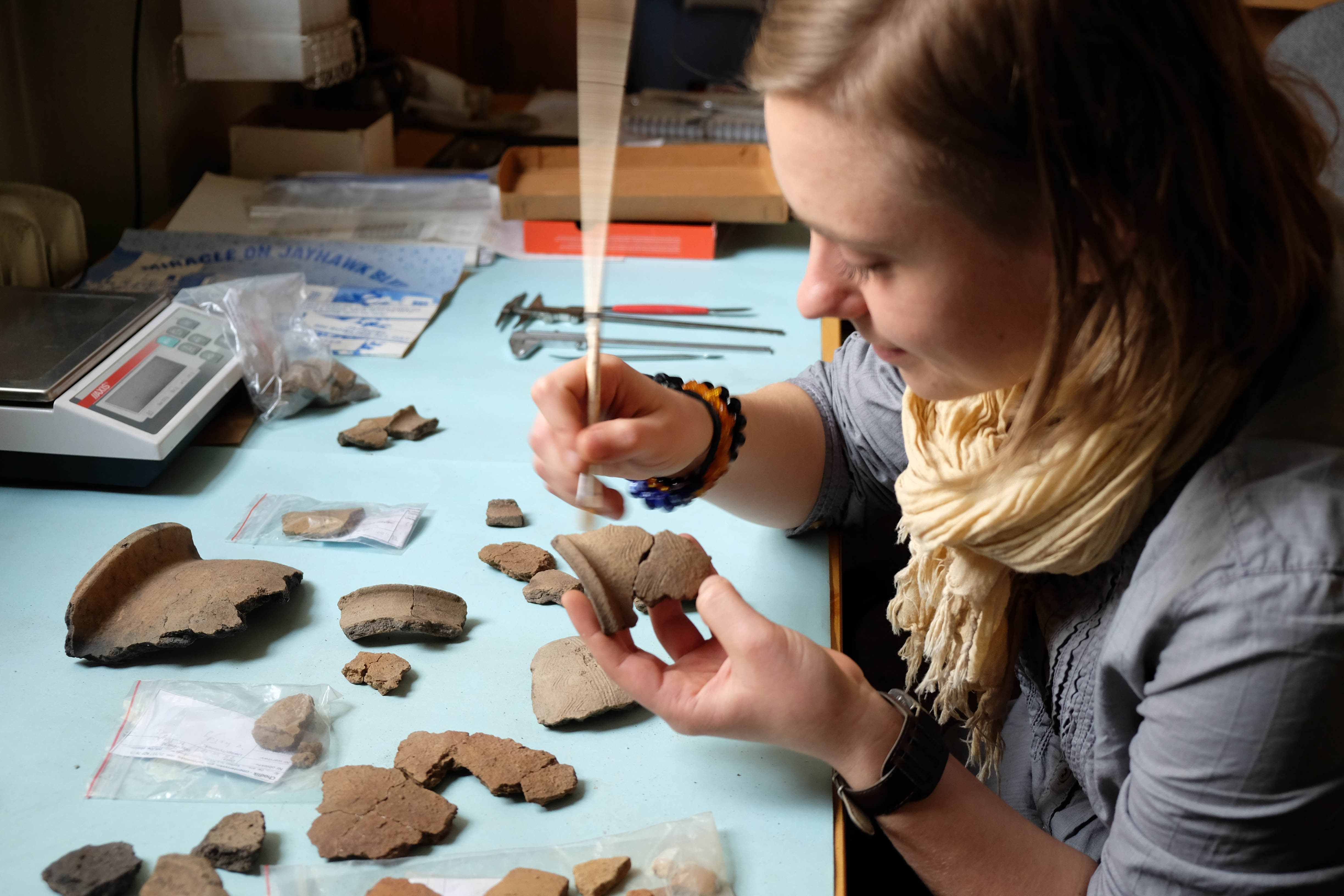 Archaeologist from Chodlik Archaeological Mission of the Institute of Archaeology and Ethnology Polish Academy of Sciences working with archaeological finds from early medieval burials discovered in Chodlik, a small village located in eastern Poland, famous for the number of relics found there from early medieval times.